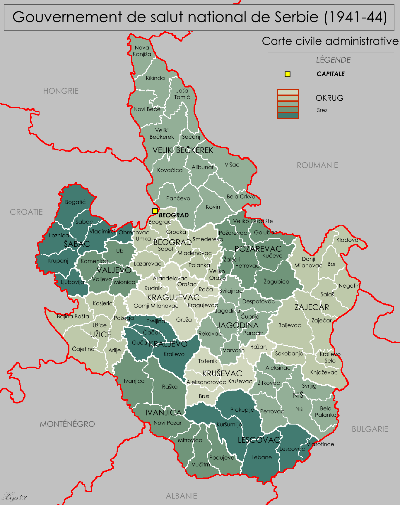 French language version of map of the civil administration of the Serbian Government of National Salvation (1941-44)